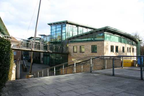 Exterior view of Kingtson Hill campus, Kingston University